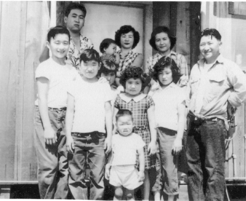 I'm standing on the far left